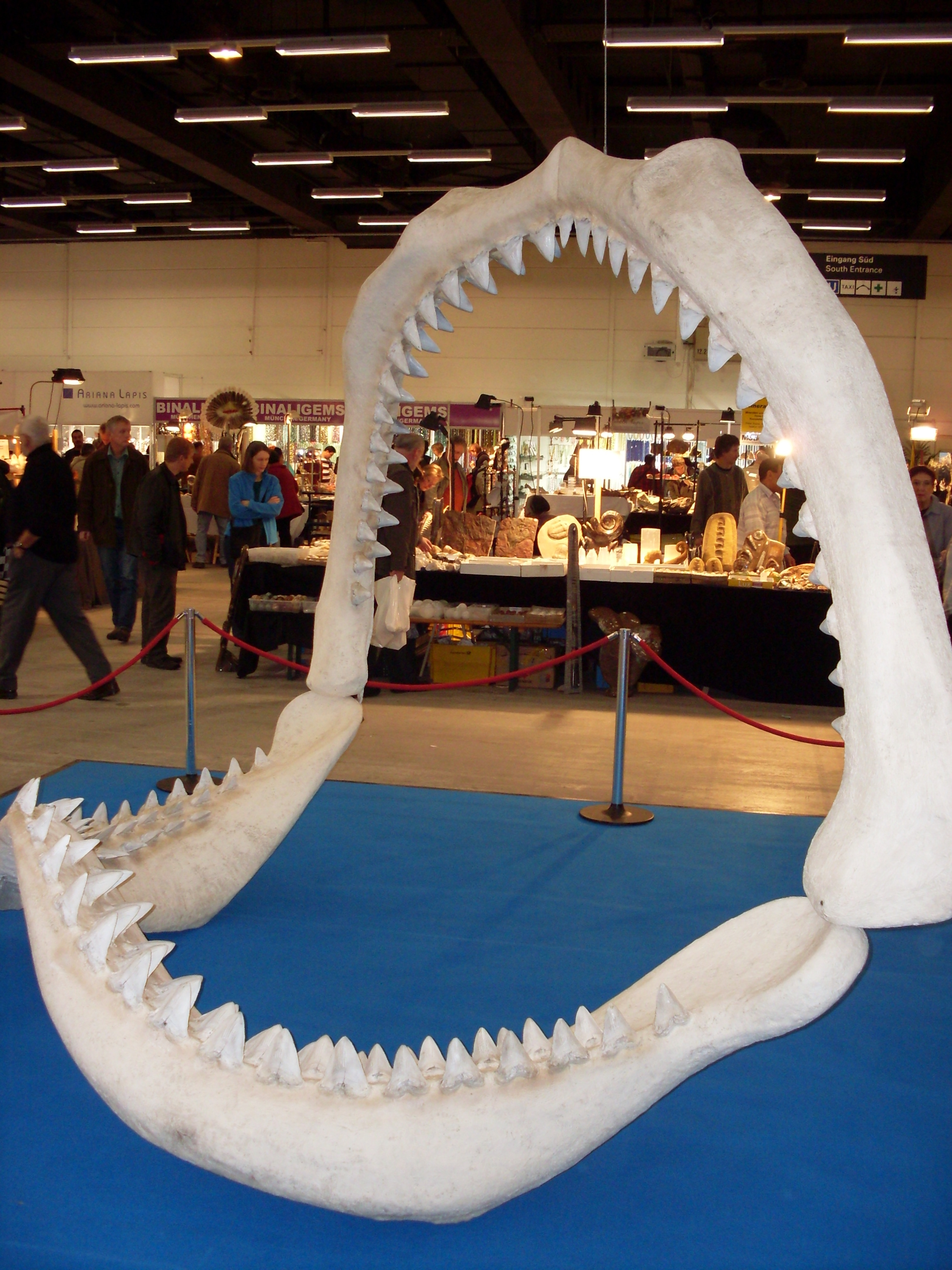 Carcharocles (Carcharodon) megalodon,jaw